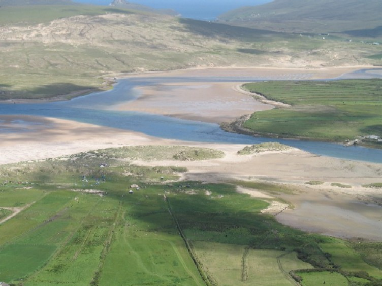 This is a view of Glengad taken from Dooncarton, Ireland